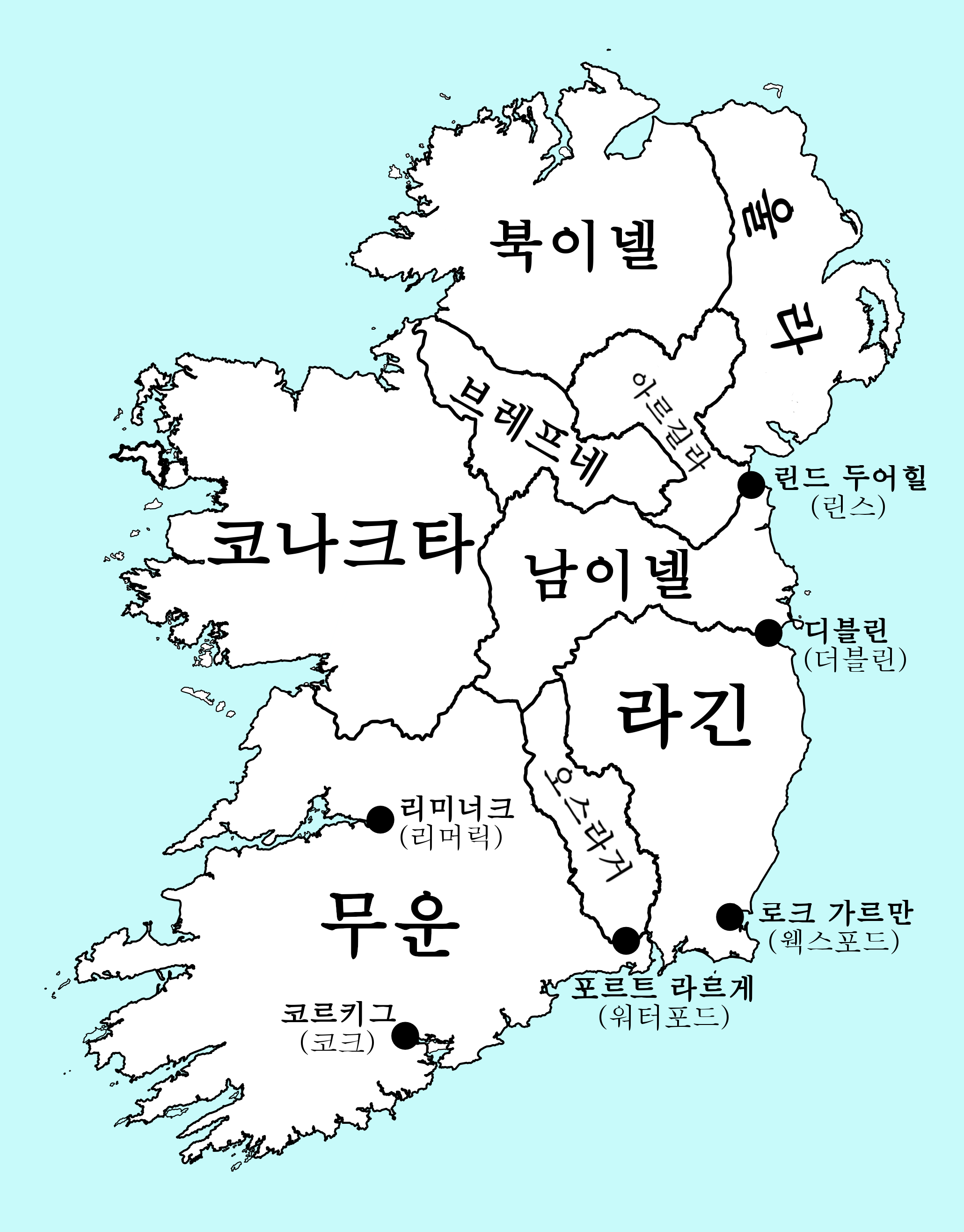 Map of Ireland, circa 900, with overkingdoms and principal (Viking) towns indicated.